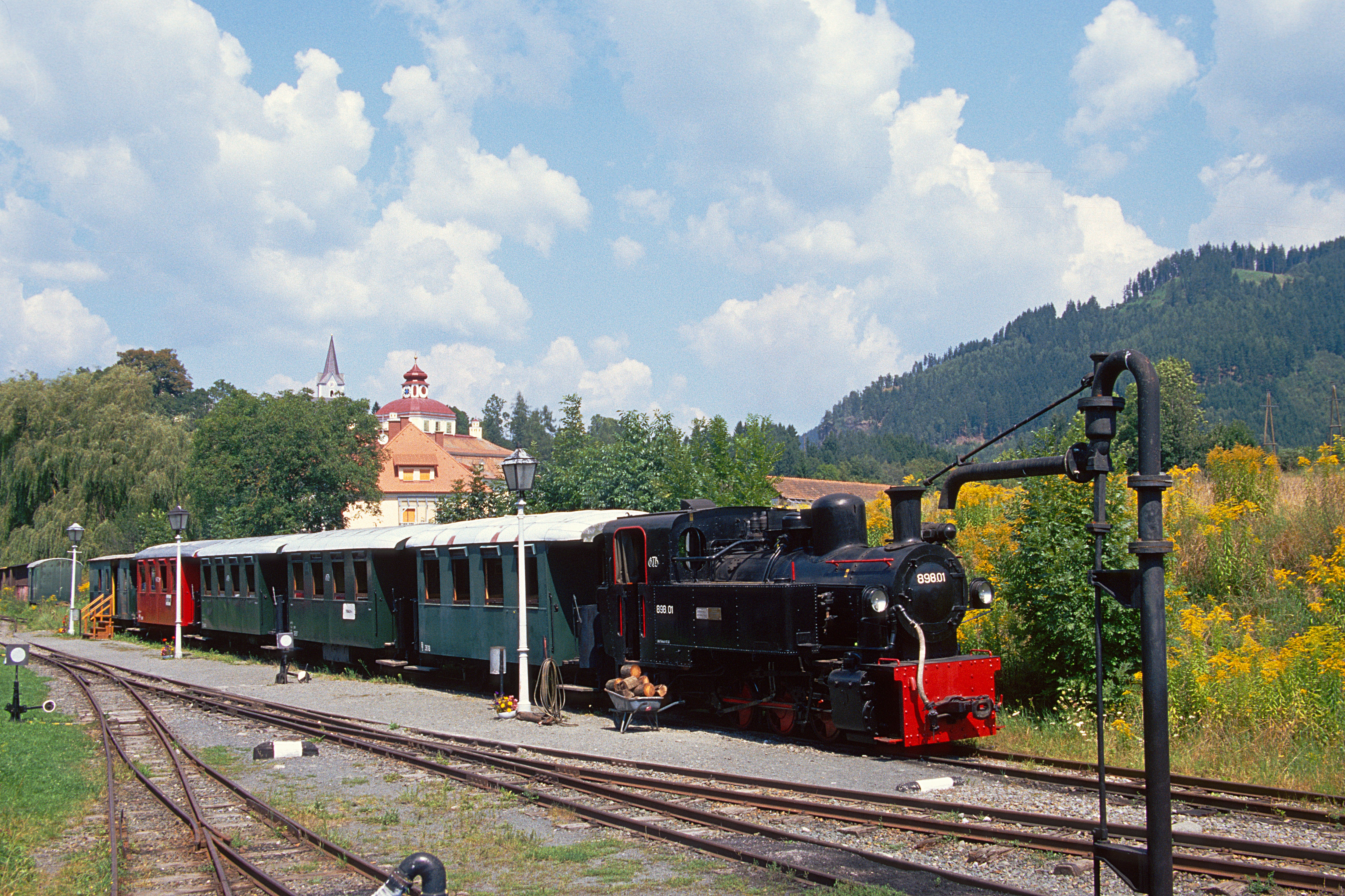 Gurktalbahn heritage railway train with 898.01 at Pöckstein-Zwischenwässern.